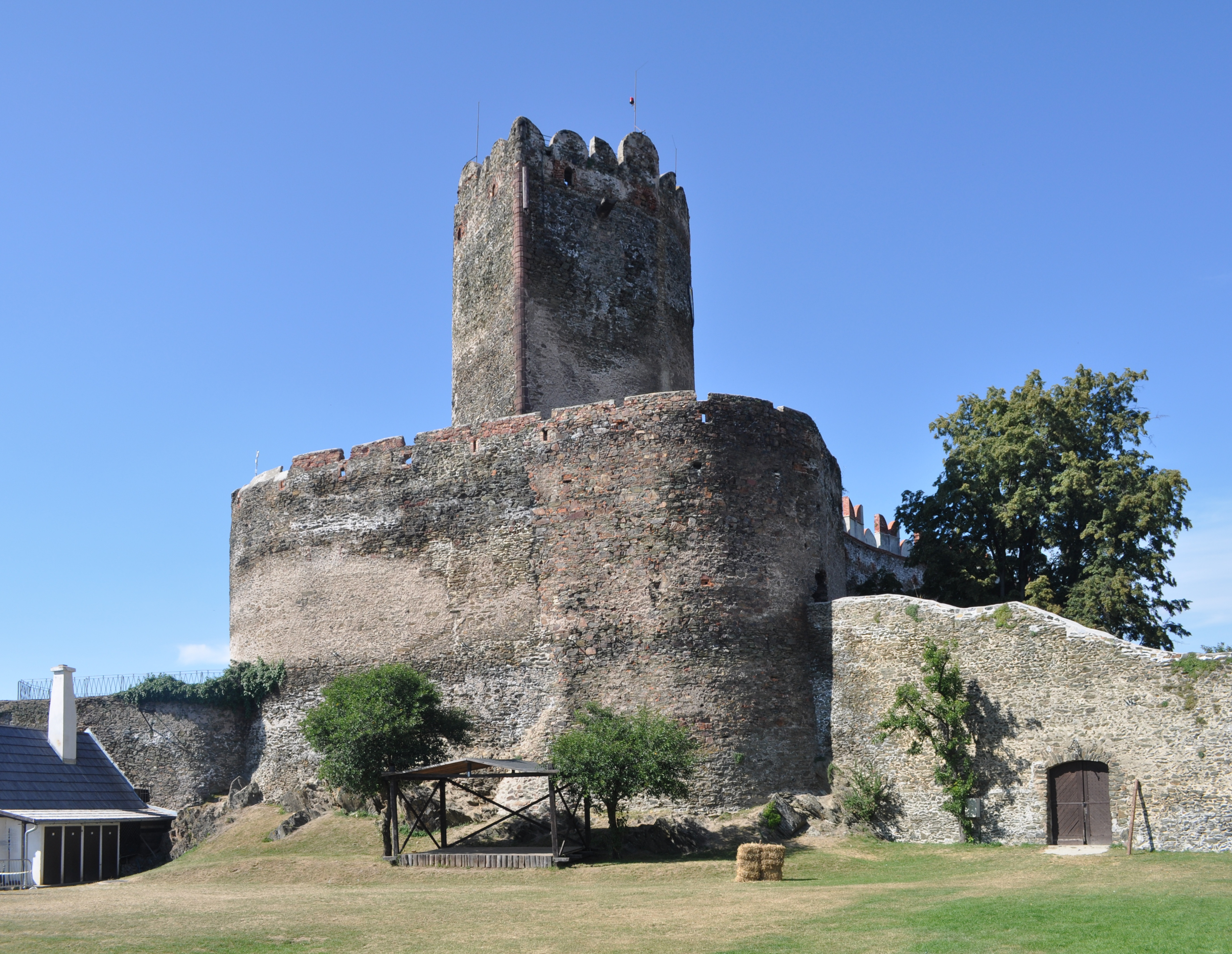 Castle in Bolków